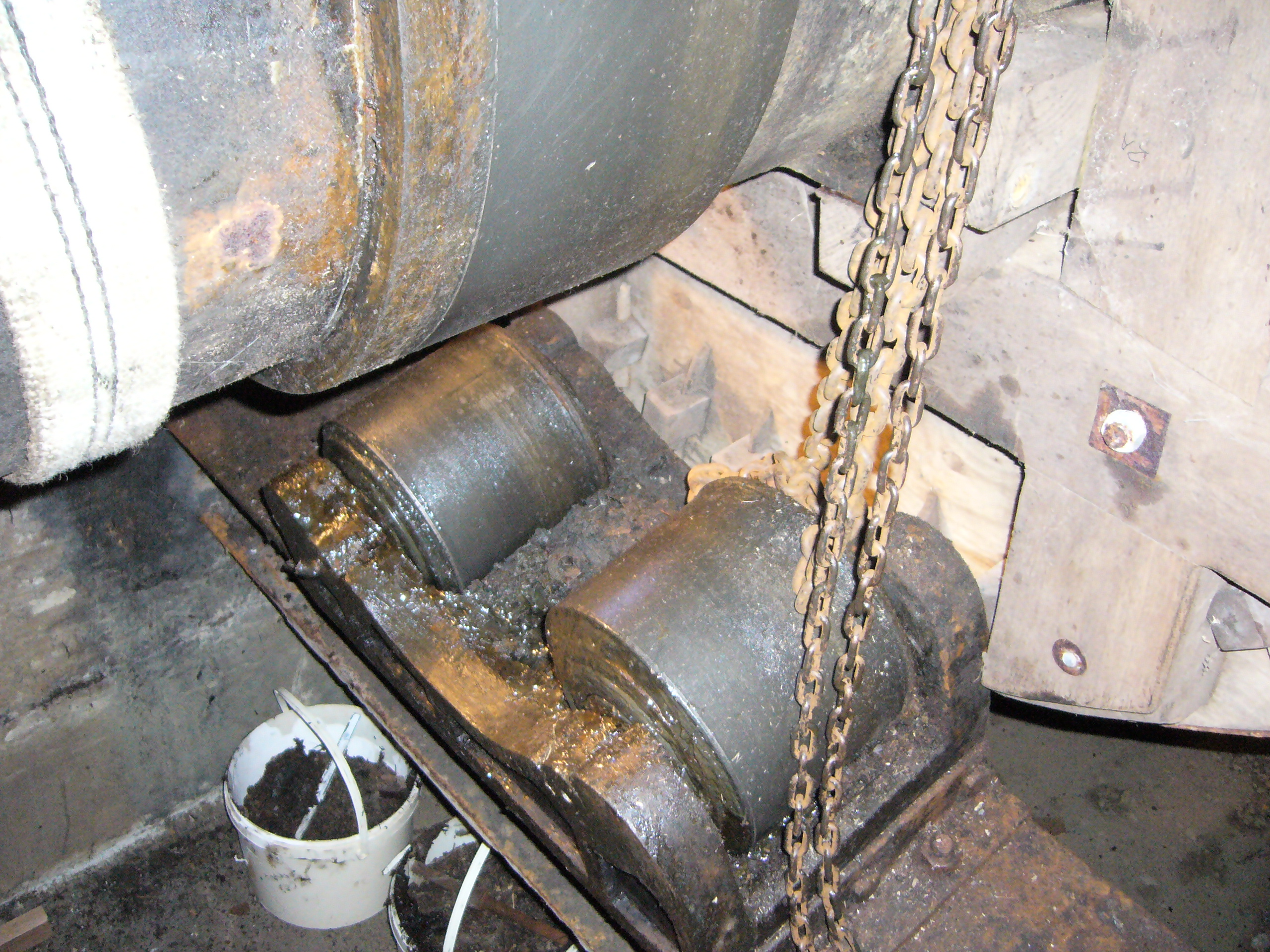 Dekker bearing of the Archimedes screw axle of the Wijnsermolen (drainage mill), seen during the renovation in 2010